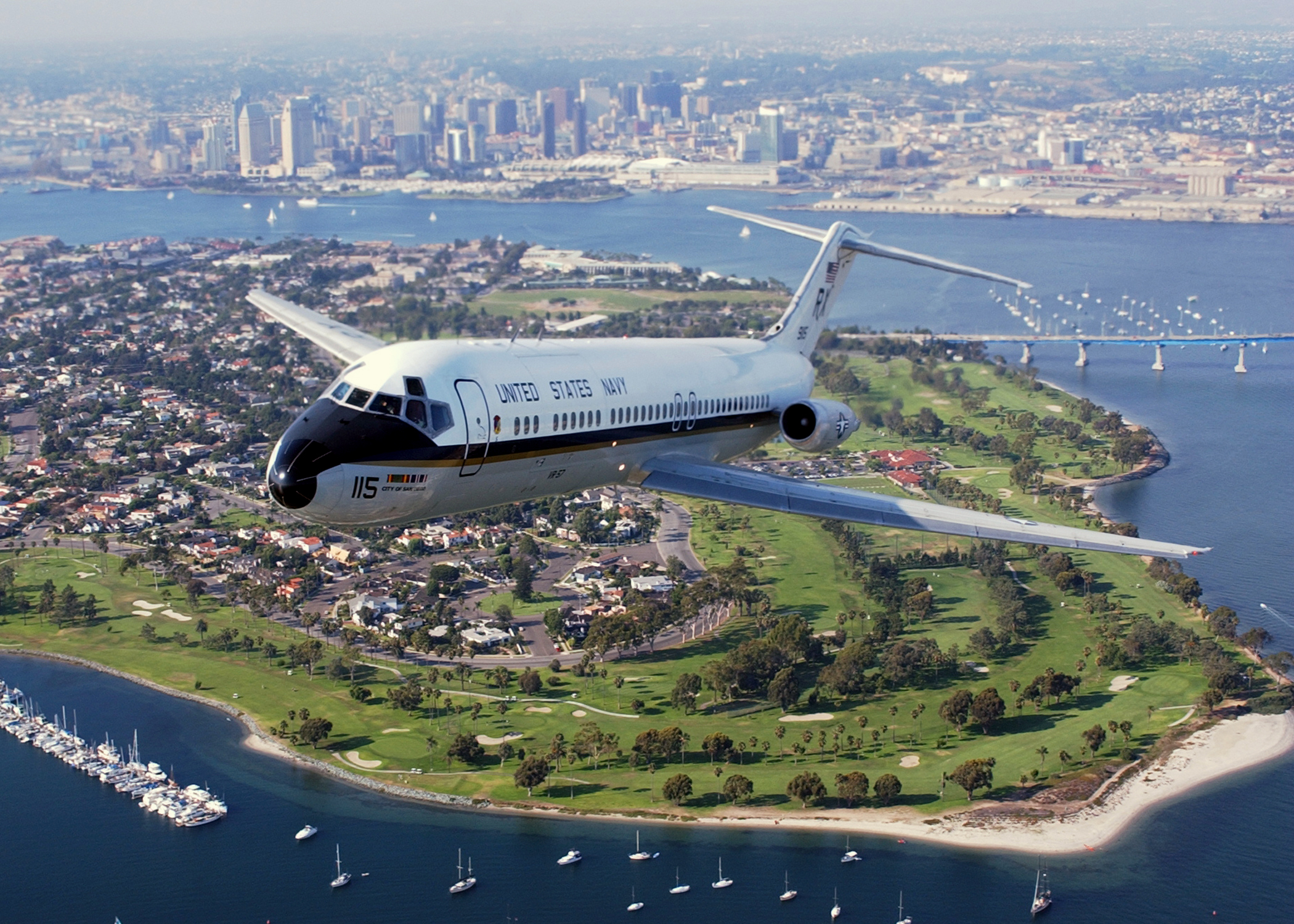 San Diego, Calif. (August 19, 2003) -- With the San Diego skyline in the background, a C-9B Skytrain II from the "Conquistadors" of Fleet Logistics Squadron Fifty Seven (VR-57) flies over Coronado, California during a routine training flight. VR-57 is a Naval Reserve squadron comprised of active duty and selected reserve personnel that provide around-the-clock, world-wide logistics support for the Navy and Marine Corps regular and reserve forces. U.S. Navy photo by Photographer's Mate 1st Class Edward G. Martens. (RELEASED)